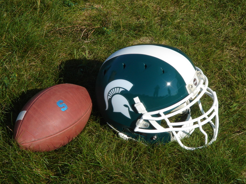 2010 Michigan State Spartans Football Helmet.